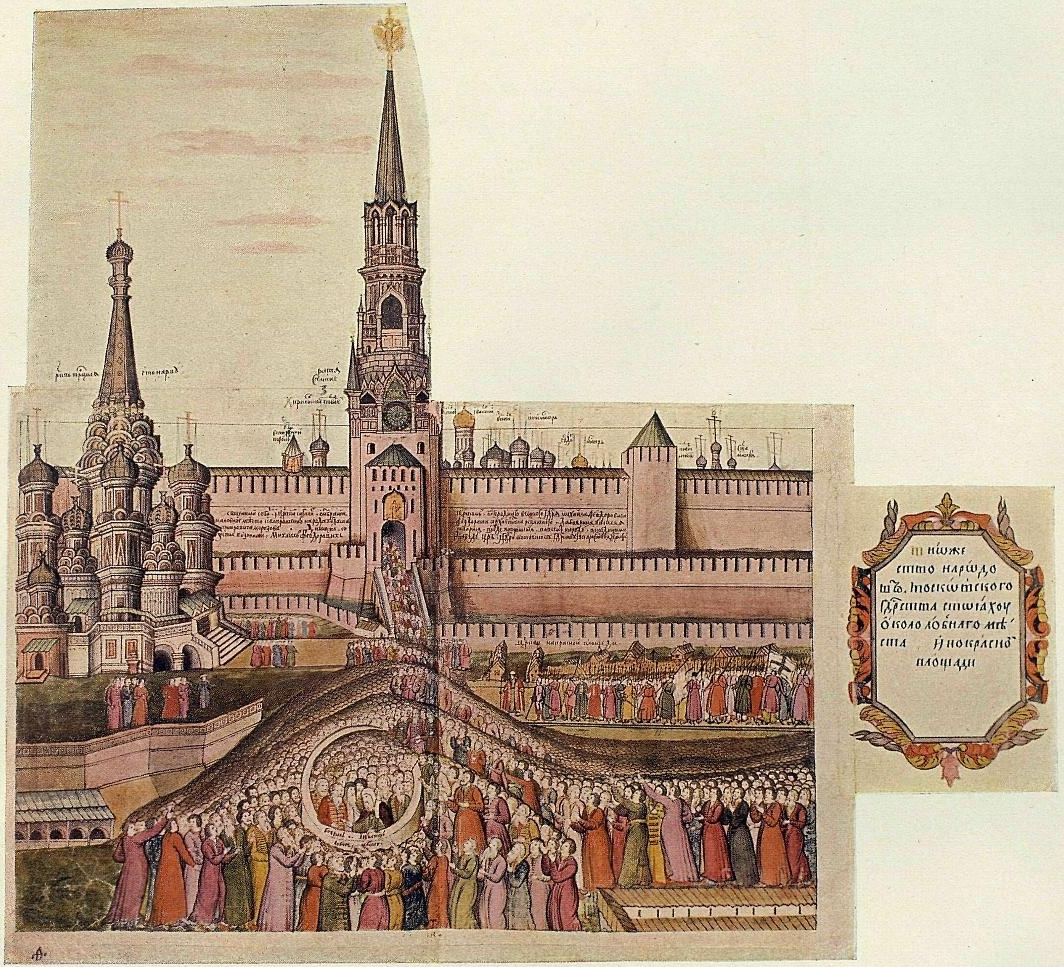 Michael I of Russia. Elections